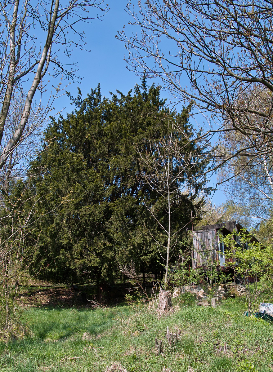 Hundred years old yew-tree in Maskovice near Povrly, Czech Republic